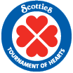 Scotties Tournament of Hearts logo